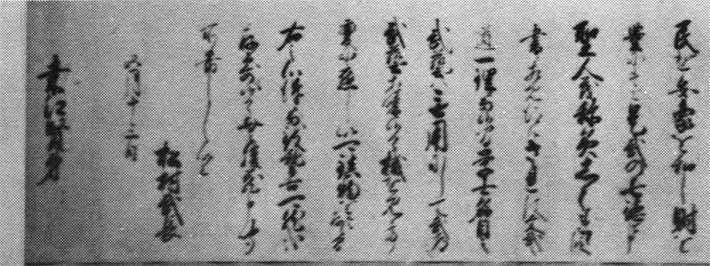 松村宗棍遺訓(Precepts of Matsumura Sokon)